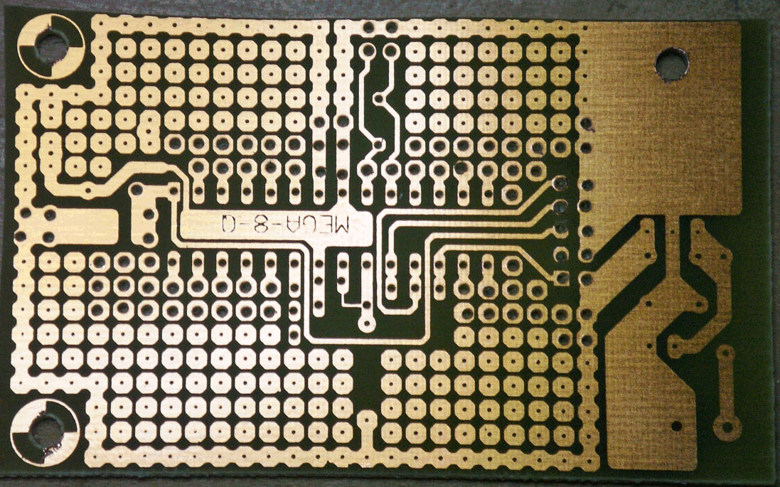 Picture of a partial drilled homemade PCB